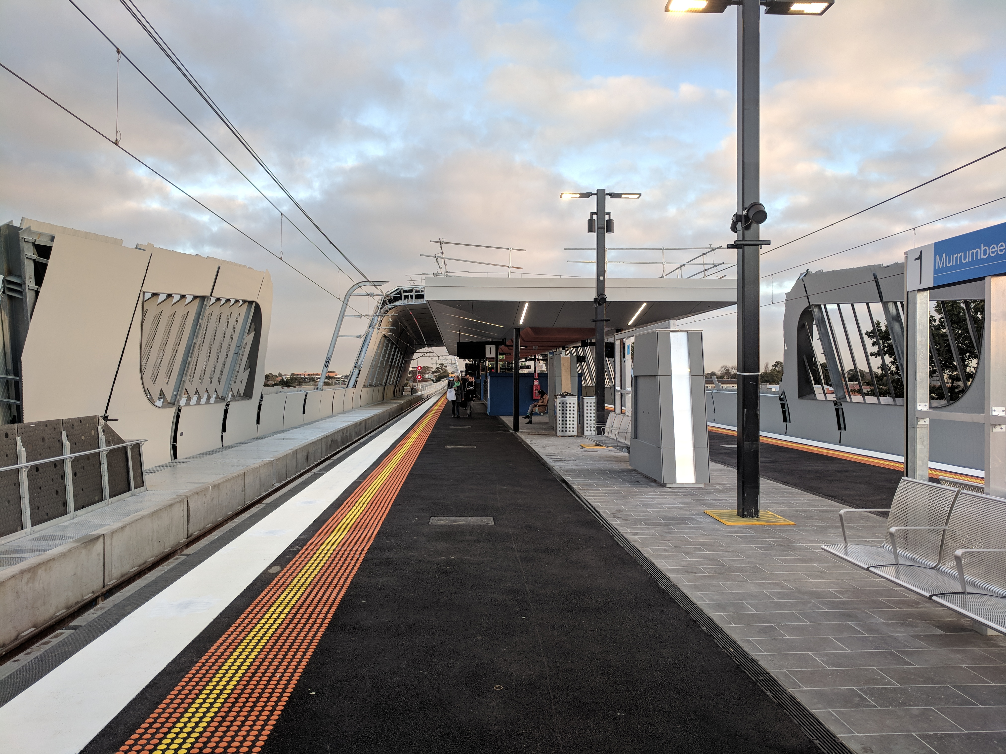 New Murrumbeena railway station on the 18-06-2018 (2)